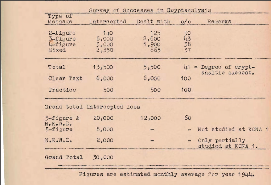 Table describing the cryptanalysis successes of KONA 1, which was a Signal Intelligence Regiment of the German Army unit, the General der Nachrichtenaufklärung. The table indicates the number of messages from the Russian Army broken by the German unit KONA 1. TICOM I-19ab, Report on Interrogation of KONA 1 at Revin, France, June 1945. Report No 25, Page 44 Other information Report is printed on Orange blotting paper. All TICOM documents are in the public domain, and this has already been decided by Dianna